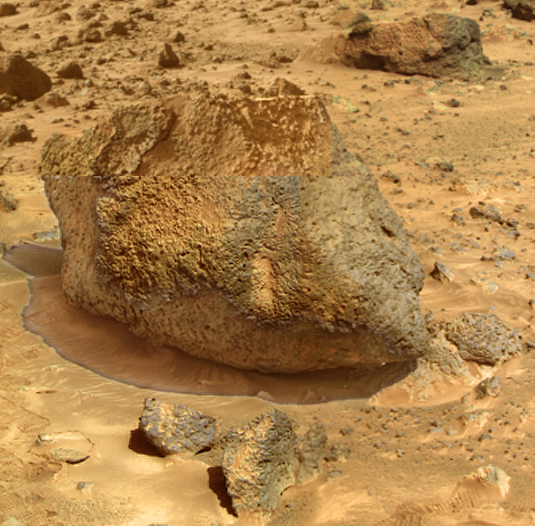 Yogi Rock on Mars "Yogi" is a meter-size rock about 5 meters northwest of the Mars Pathfinder lander and was the second rock visited by the Sojourner Rover’s alpha proton X-ray spectrometer (APXS) instrument. This mosaic shows super resolution techniques applied to the second APXS target rock, which was poorly illuminated in the rover’s forward camera view taken before the instrument was deployed. Super resolution was applied to help to address questions about the texture of this rock and what it might tell us about its mode of origin. This mosaic of Yogi was produced by combining four "Super Pan" frames taken with the IMP camera. This composite color mosaic consists of 7 frames from the right eye, taken with different color filters that were enlarged by 500% and then co-added using Adobe Photoshop to produce, in effect, a super-resolution panchromatic frame that is sharper than an individual frame would be. This panchromatic frame was then colorized with the red, green, and blue filtered images from the same sequence. The color balance was adjusted to approximate the true color of Mars. Shadows were processed separately from the rest of the rock and combined with the rest of the scene to bring out details in the shadow of Yogi that would be too dark to view at the same time as the sunlit surfaces. This resulted in the unusual color fringing at the edges of the shadow.